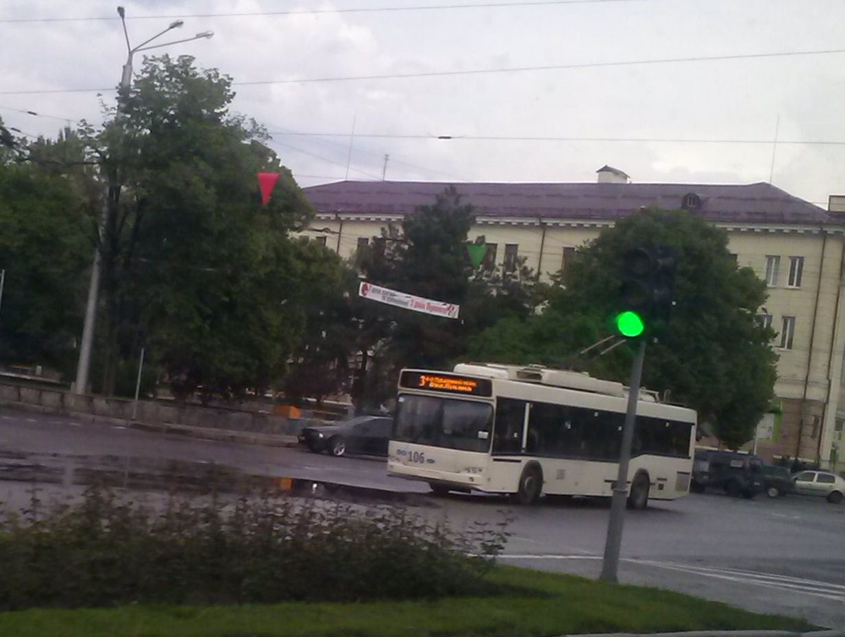 Zaporіzhzhia . Trolleybus_106 on Cathedral Avenue